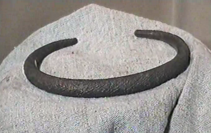 Torc. Jewellery artifacts from Bronze Age found in Ukraine.